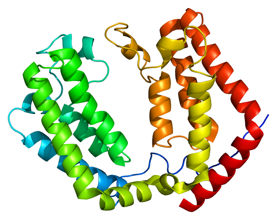 Structure of the TAF1 protein. Based on PyMOL rendering of PDB 1eqf.